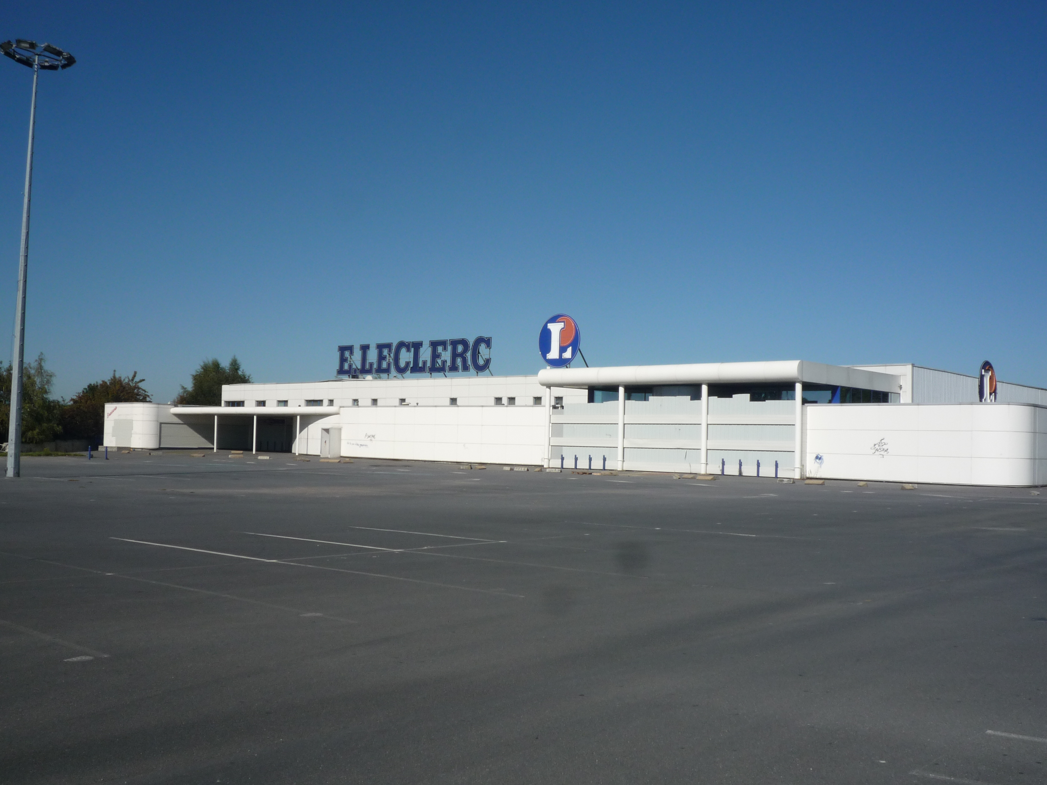 Caudry, Nord-Pas-de-Calais, France.